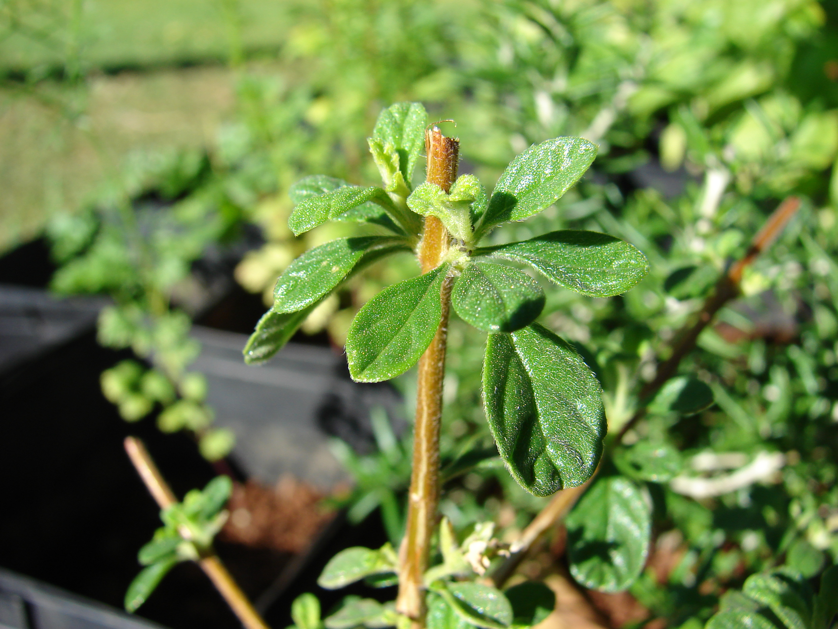 Origanum vulgare Lippia micromera (stick variety leaves). Location: Maui, Makawao